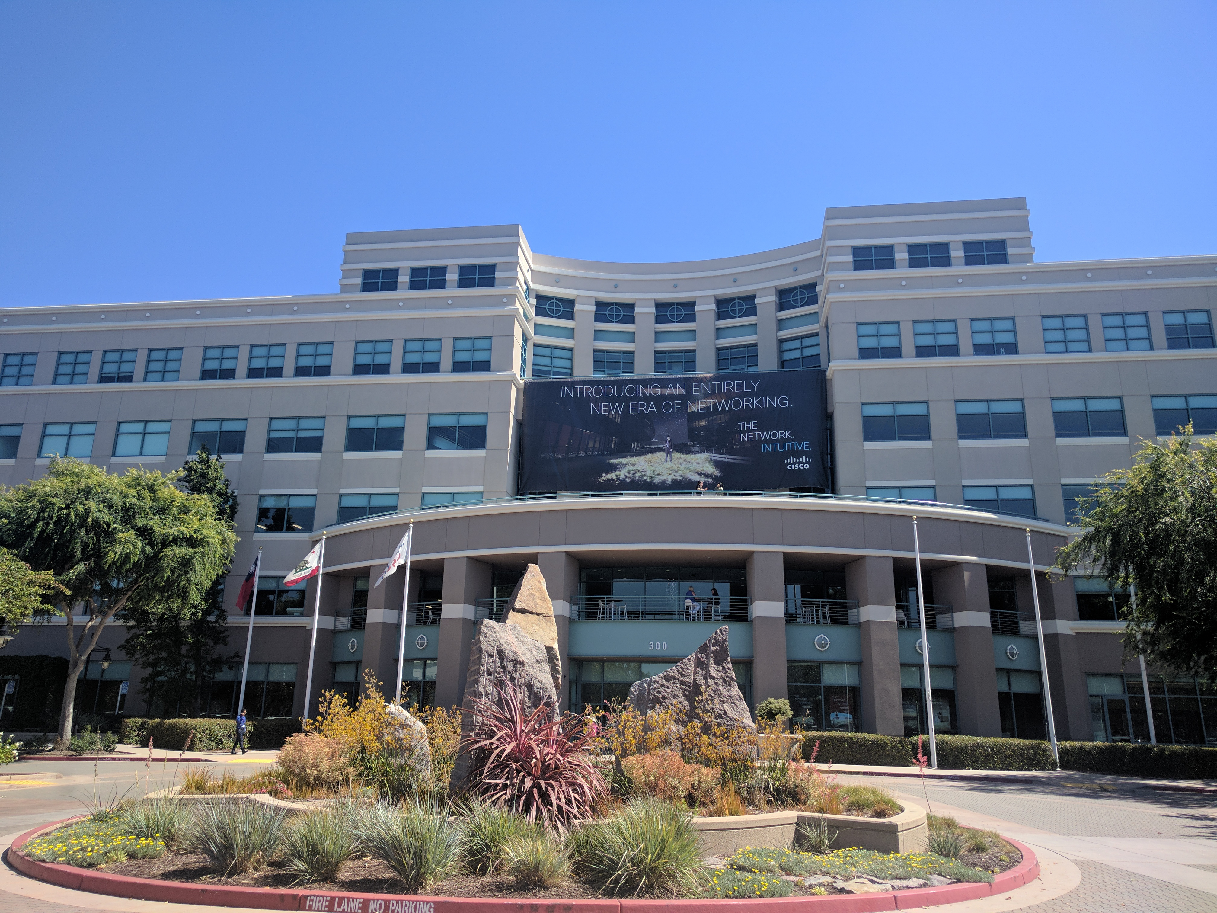 Cisco San Jose Cisco HQ building 10